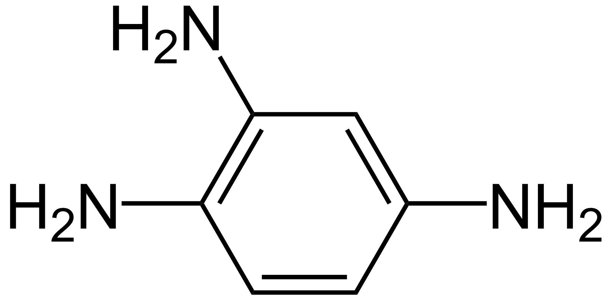 Description: based on Chemical structure of Prontosil. * Author, date of creation: selfmade by ~K, 01 July 2005. * Source: - * Copyright: GNU Free Documentation License. (GFDL) * Comments: high-resolution b/w PNG; ChemDraw / The GIMP.